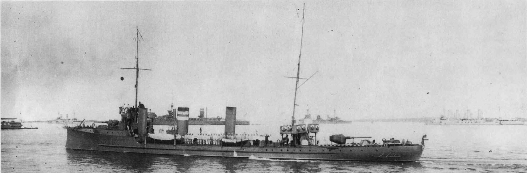 Imperial Russian destroyer Zabaykalets with HMS battle cruisers.